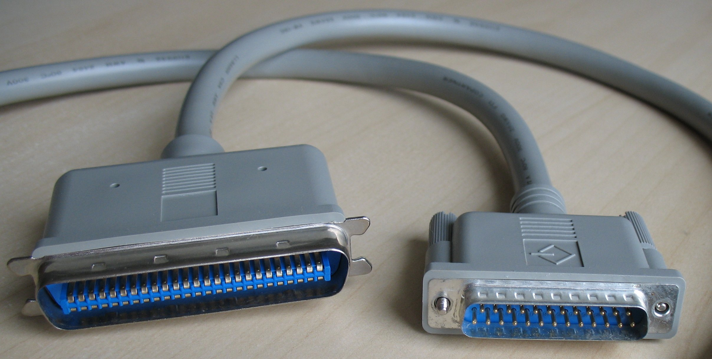 SCSI 25-50 pins cable.